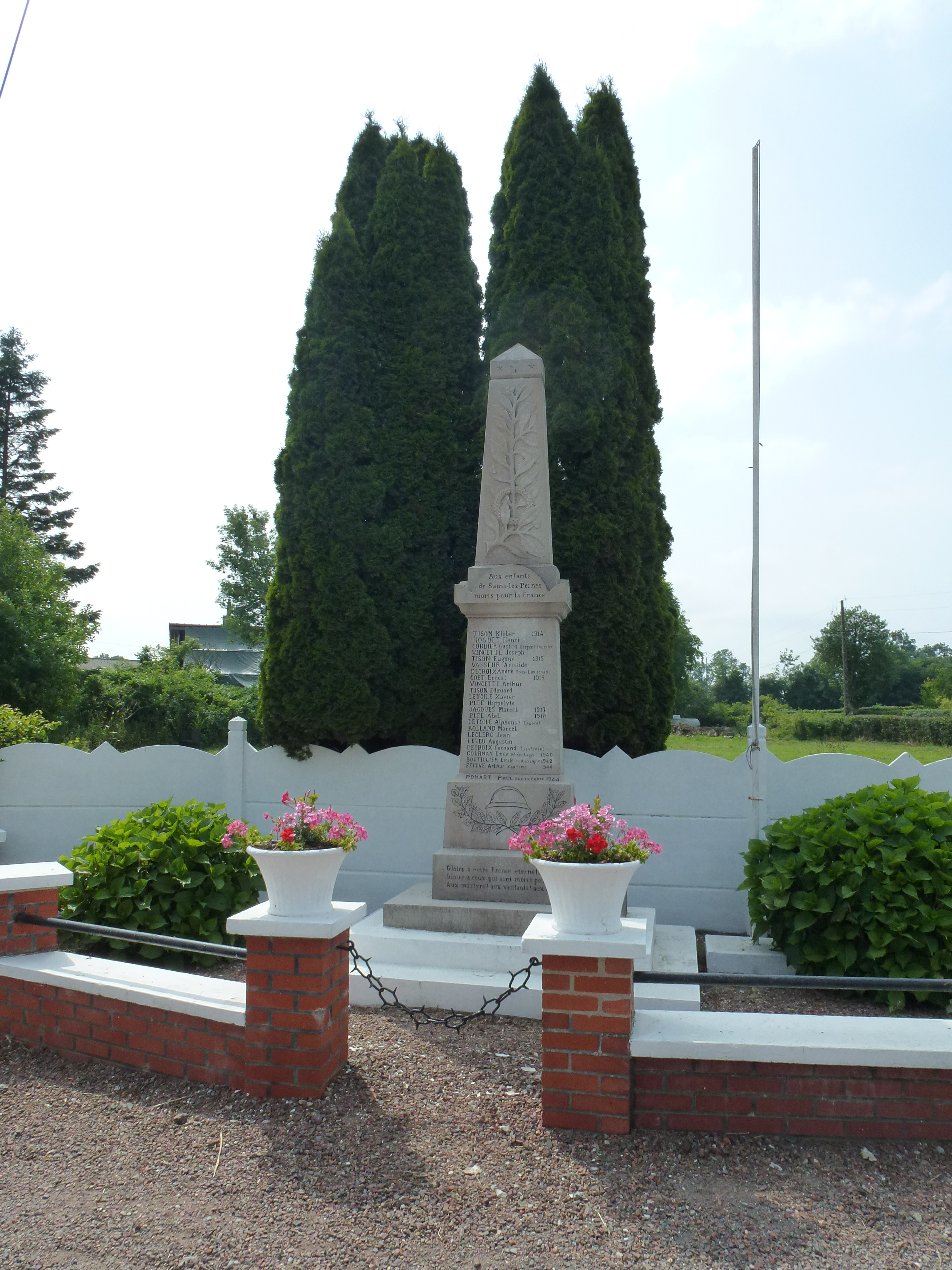 Sains-lès-Pernes (Pas-de-Calais, Fr) monument aux morts